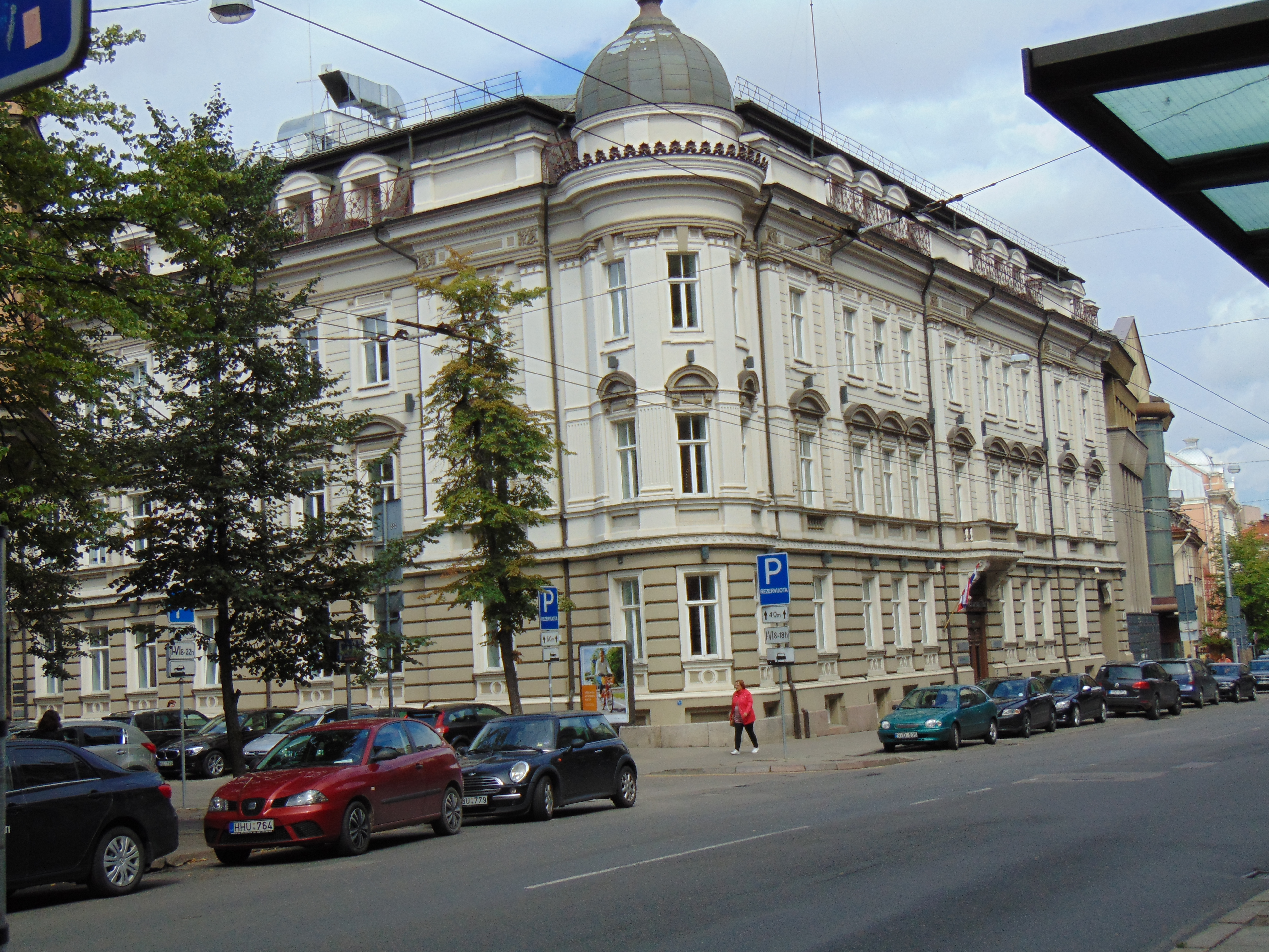 9 Jogailos Street